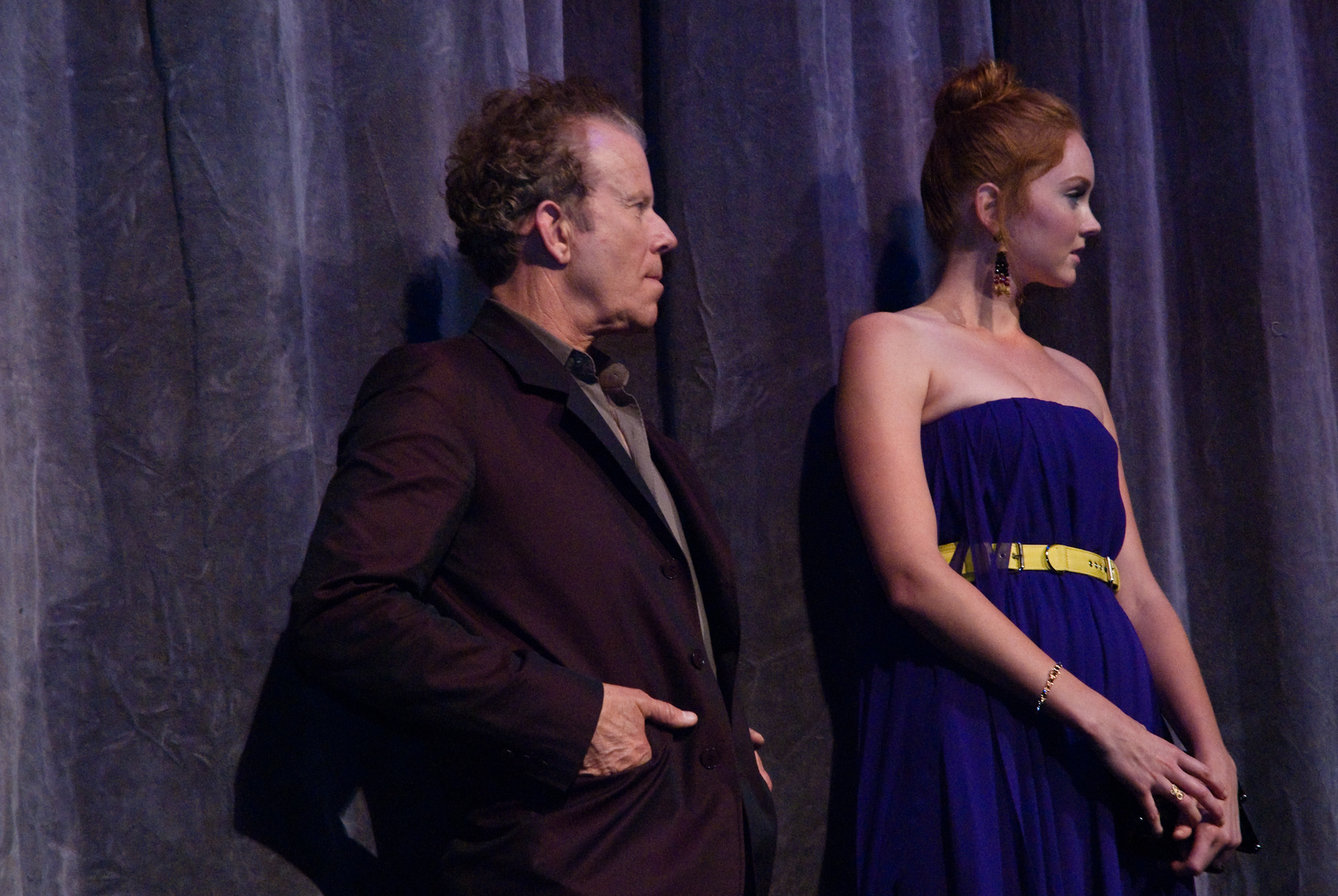 Lily Cole and Tom Waits at the premier for The Imaginarium of Doctor Parnassus at the 2009 Toronto International Film Festival in September 2009.